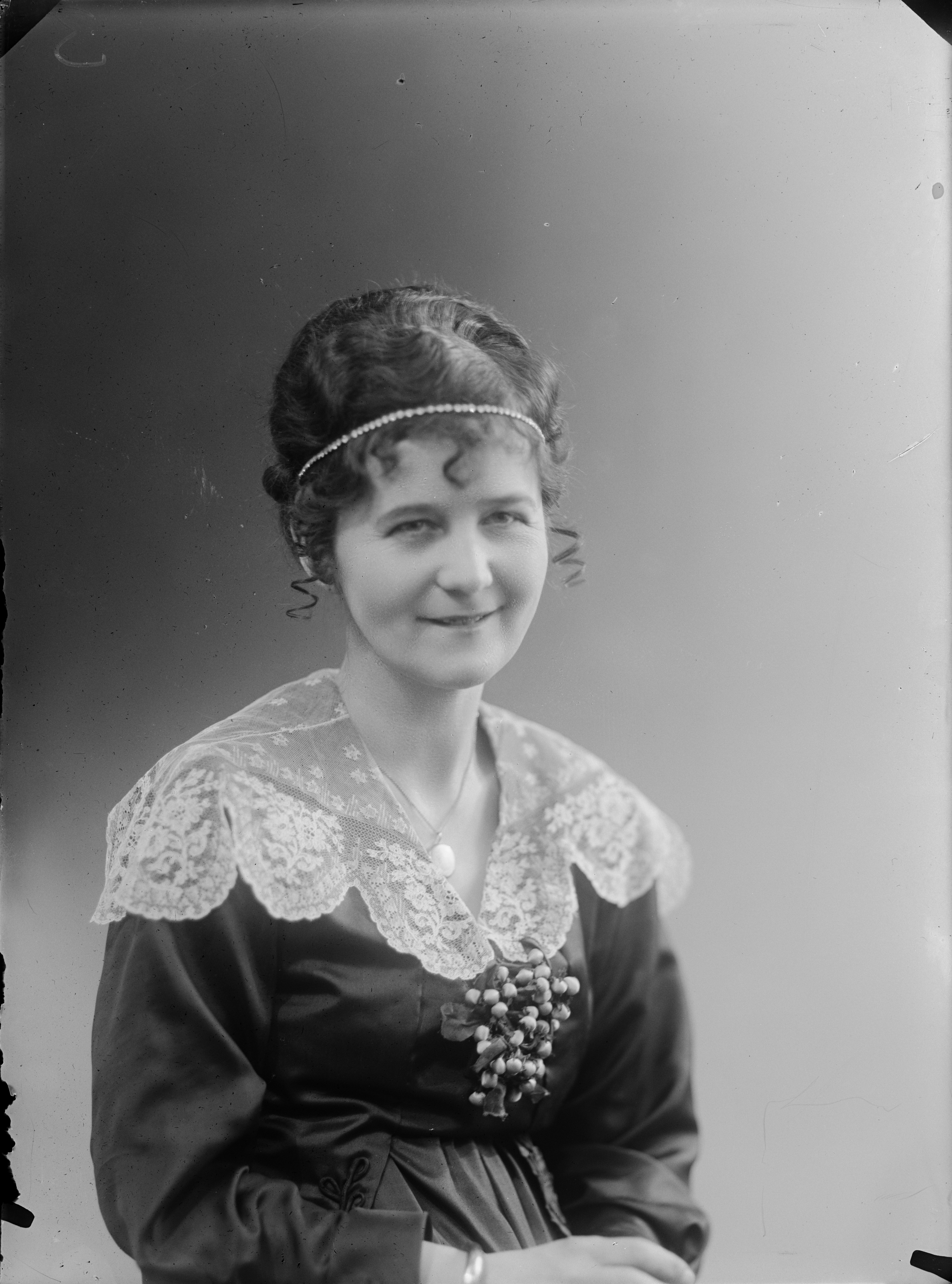 Carl Klein Atelier Universal d1999_77_34 Digitized from original negative. / Digitoitu alkuperäisnegatiivista. The Finnish Museum of Photography / Suomen valokuvataiteen museo